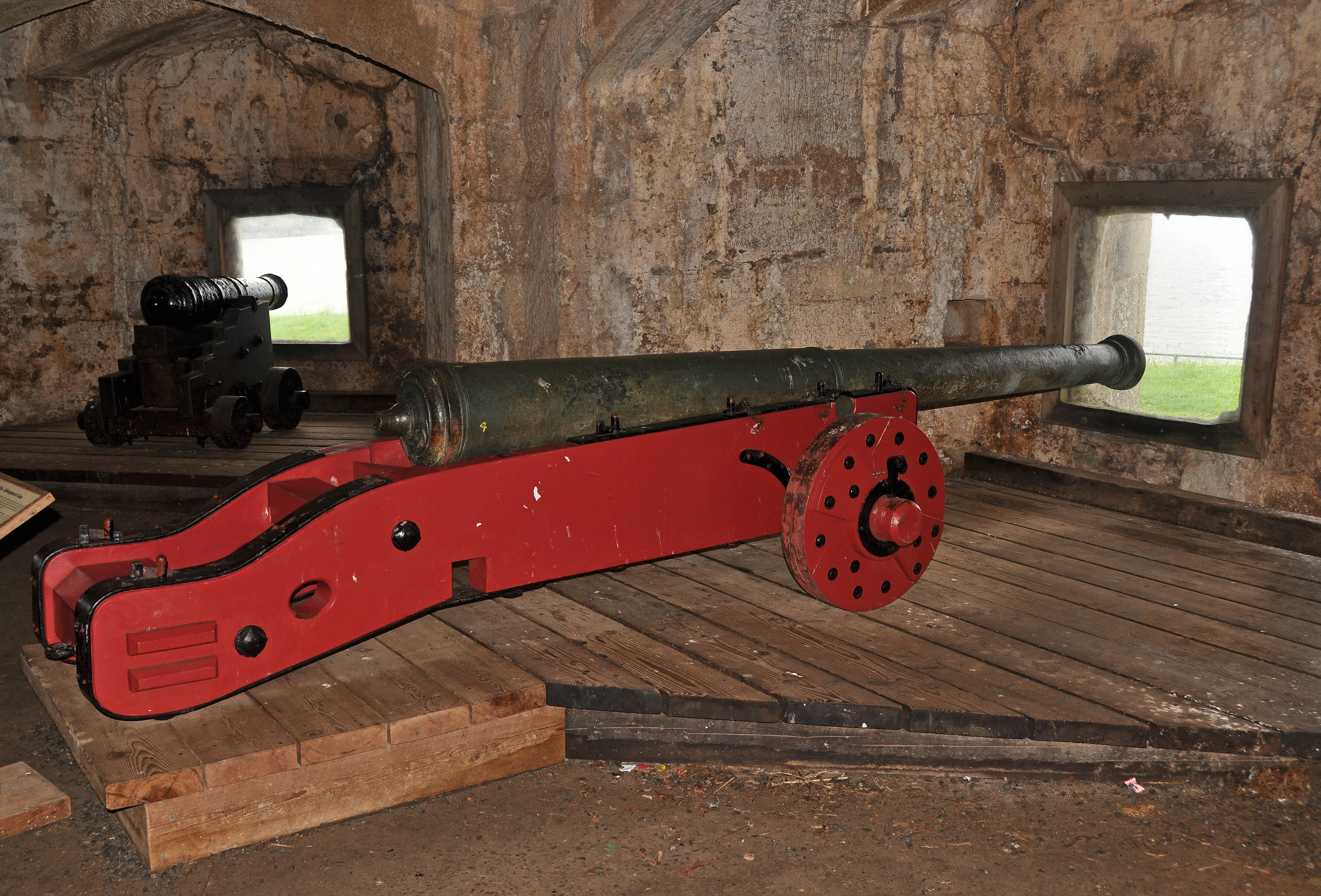 The Alberghetti Gun at St Mawes Castle, Cornwall. This gun is a saker and was made in Italy in the 16th Century, and was found off Teignmouth in 1975.